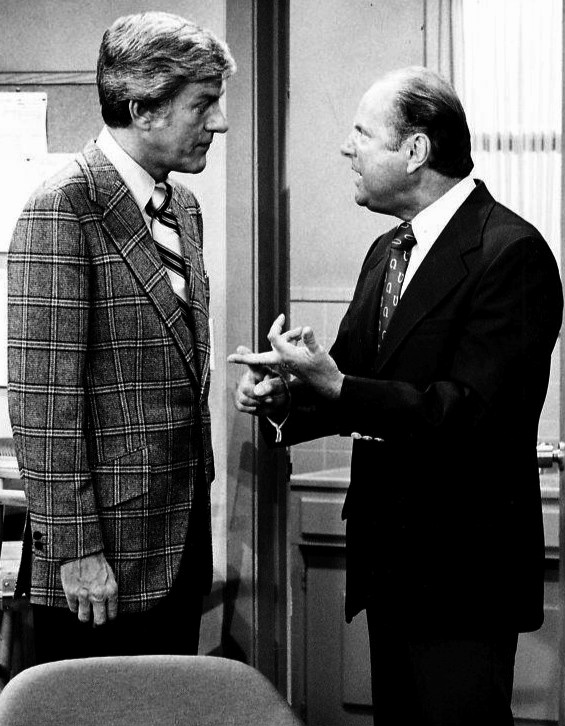 Publicity photo of Dick Van Dyke and Dick Van Patten from the televisio program The New Dick Van Dyke Show.